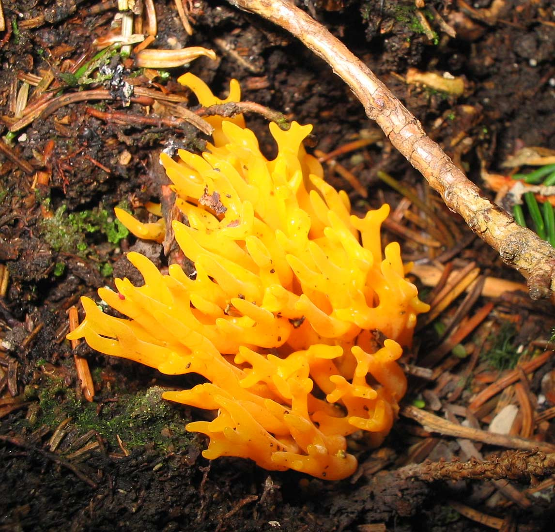 Calocera viscosa on the floor of a spruce forest in Filzmoos, Salzburg, Austria